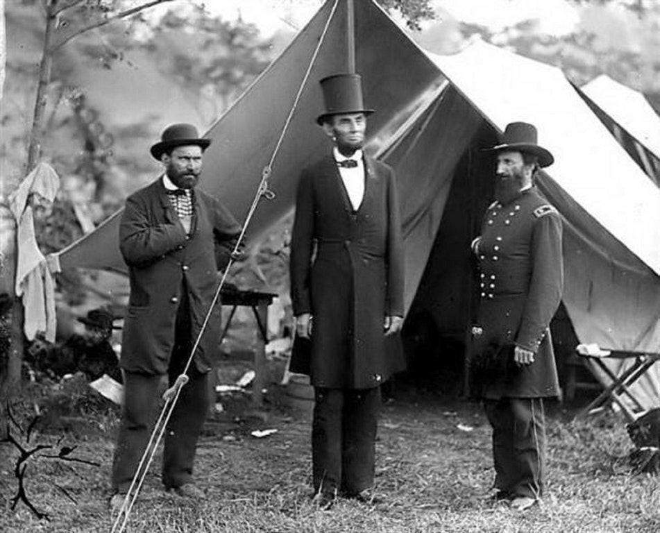 Abraham Lincoln (centre) in front of tent flanked by two other men Allan Pinkerton, President Abraham Lincoln, and Major General John Alexander McClernand. Pinkerton was the head of Union Intelligence Services at the time. He also, allegedly, foiled an assassination attempt against Lincoln. His wartime work was critical in Pinkerton’s development, which he later used to pioneer the American private detective industry when he formed the Pinkerton National Detective Agency. Photograph by Alexander Gardner, 3 October 1863.